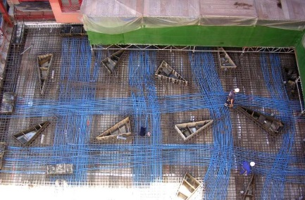 Losa postersada techo de sala de exposiciones y suelo de patio interior.